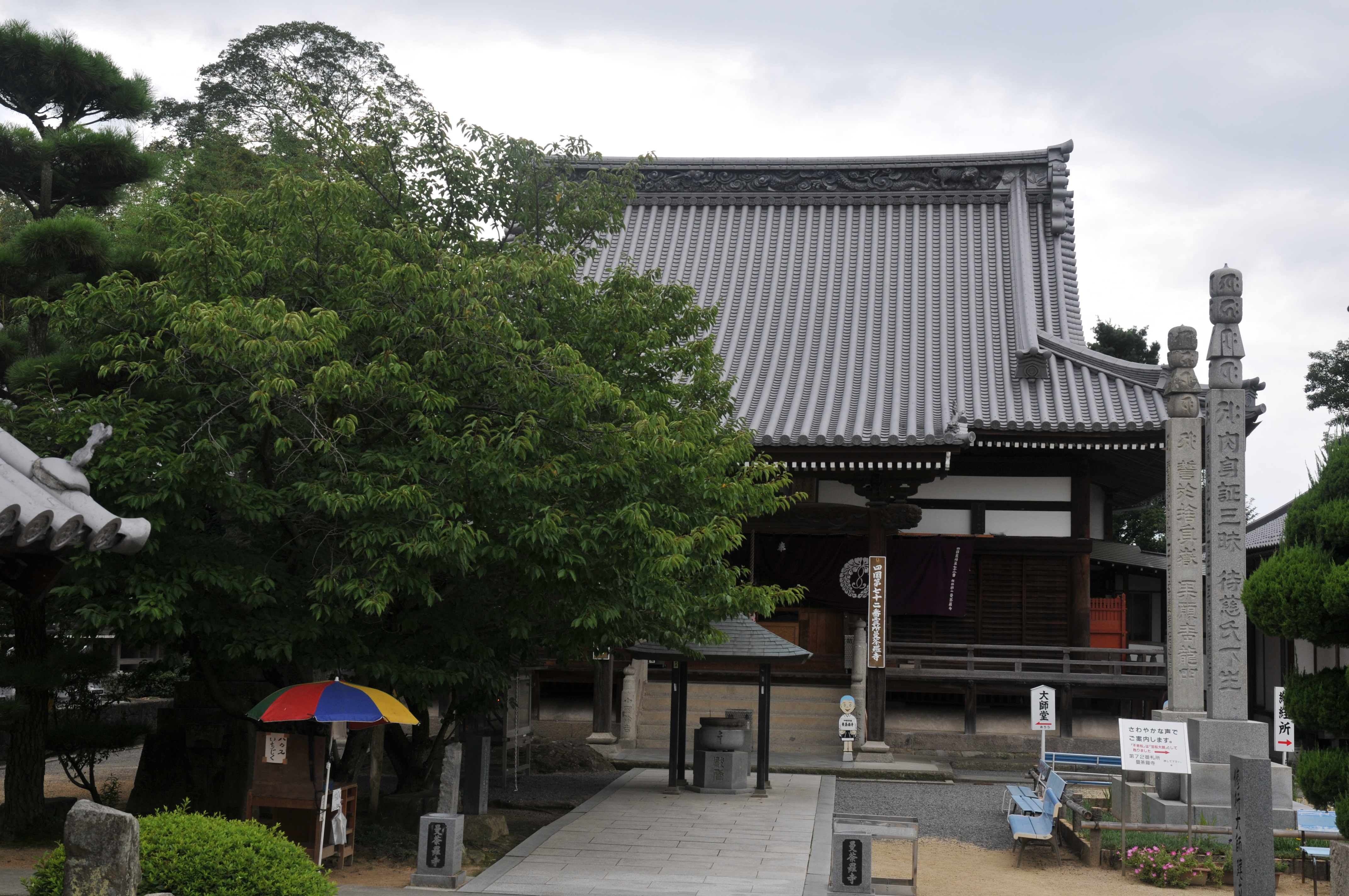 Main temple, Mandara-ji